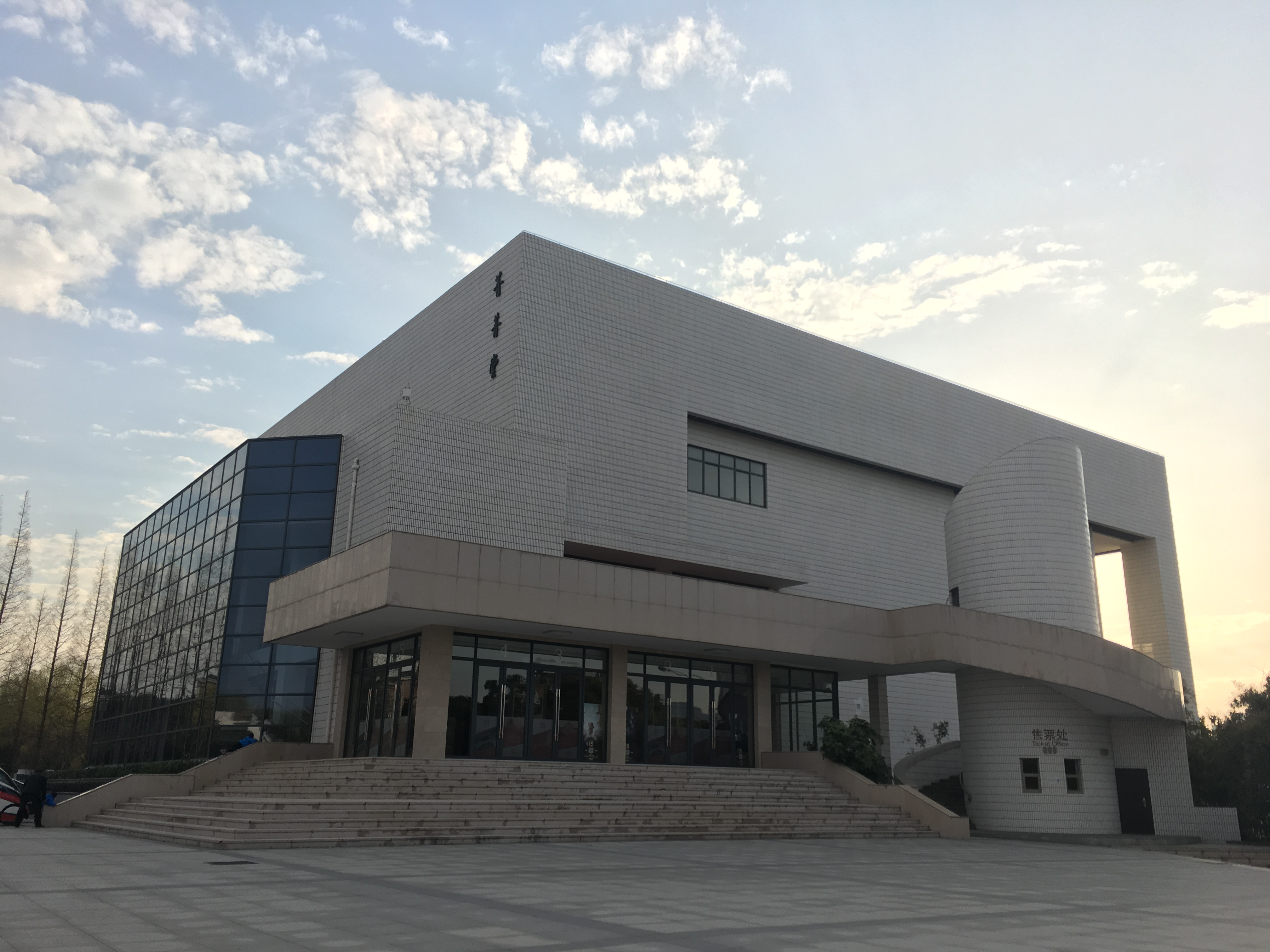 The "Jing Jing Tang" auditorium in Shanghai Jiao Tong University Minhang Campus